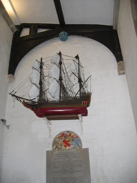 Bonaventure, St Mary's Church, Painswick, near to Painswick, Gloucestershire, Great Britain. This lovely model of Drake's flagship at the Armada was given to the church in 1971. It replaces one destroyed when the church was damaged during the Civil War and symbolises the Christian beliefs of sailing across the seas of life.